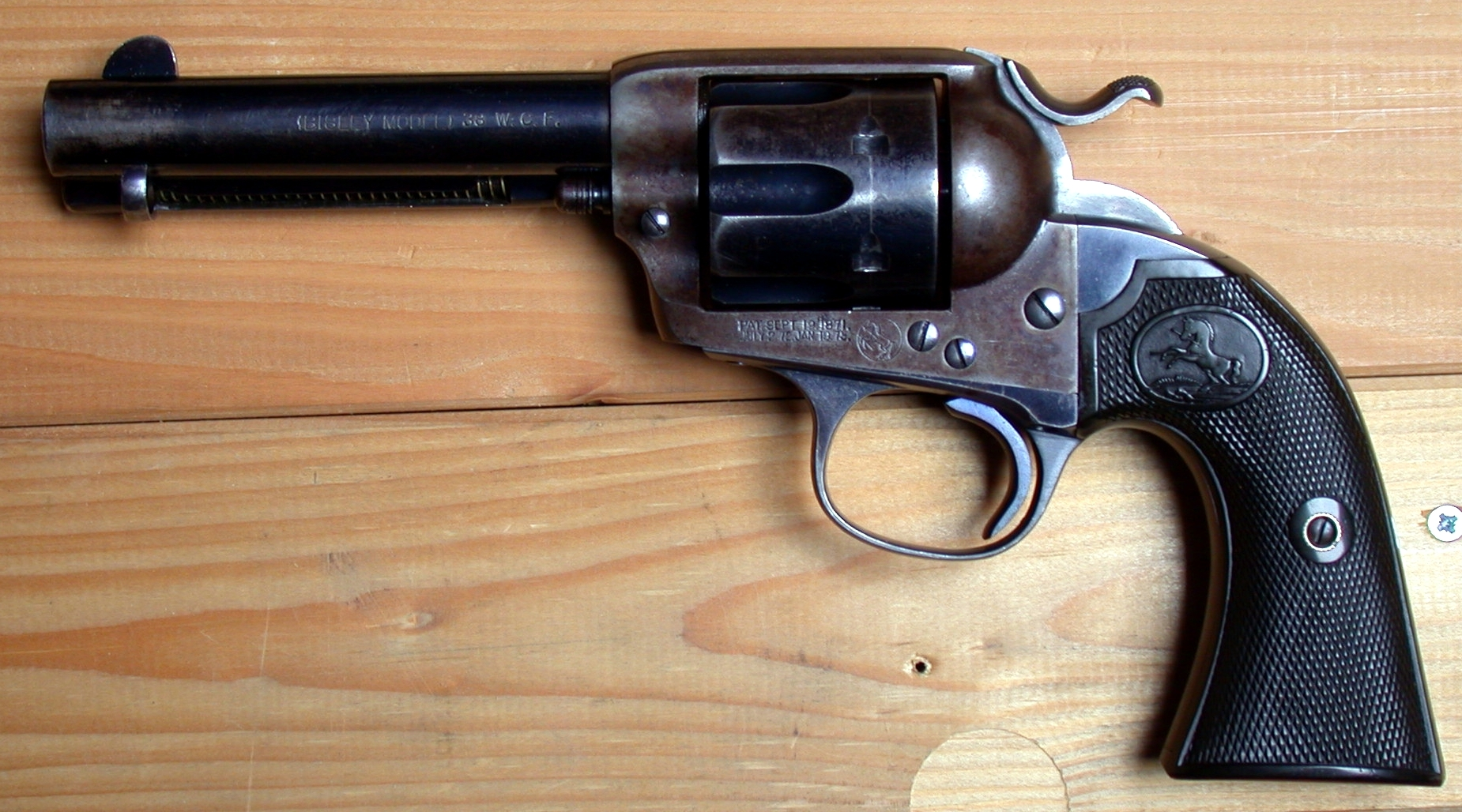 Colt Bisley .38-40 caliber, shipped to Copper Queen Mining Co. Bisbee, AZ